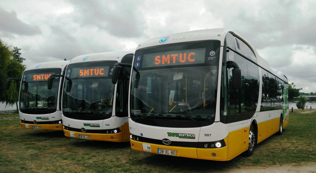 BYD electric bus in Coimbra